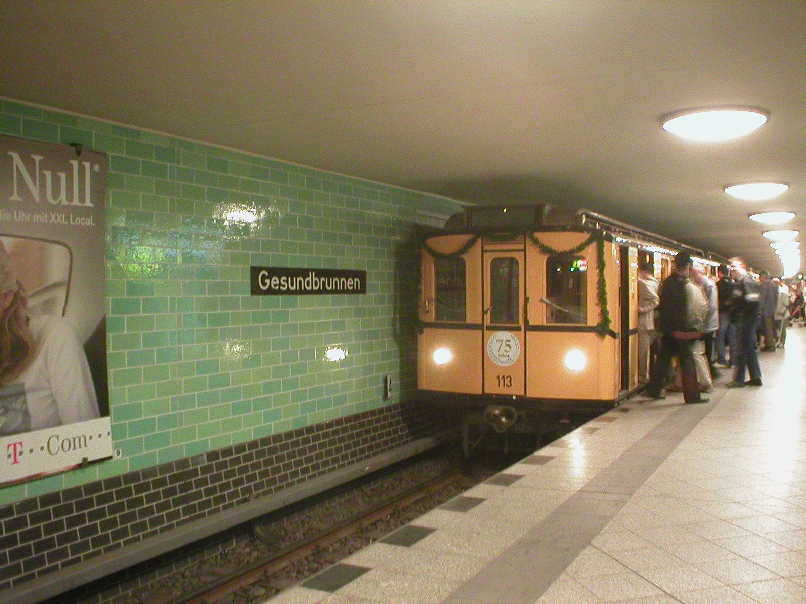 The train type BII and the Berlin U-Bahn station Gesundbrunnen